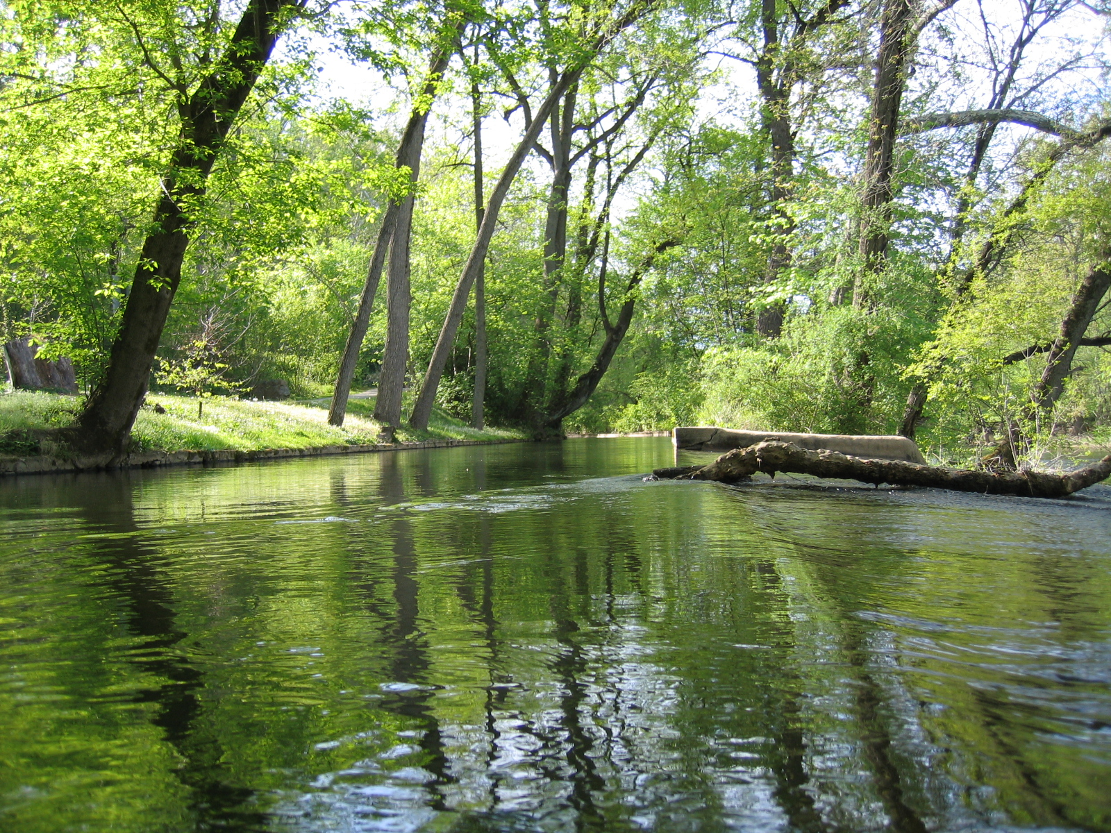 Brandywine Park, Wilmington, Delaware. Millrace diverted from Brandywine Creek.